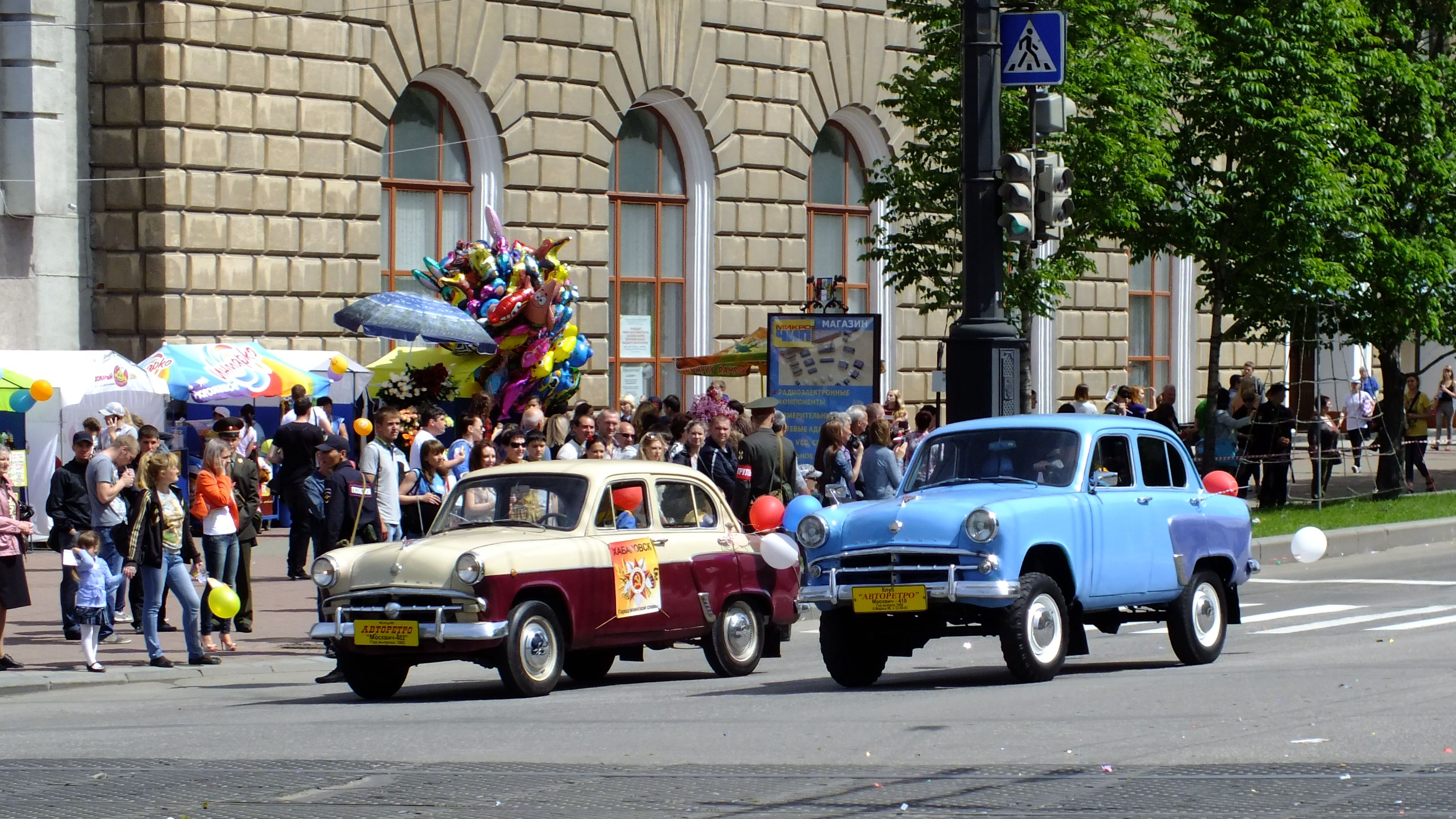 Moskvich 402 (according to owner's description, however side trim on rear fenders suggests Moskvich 407) and Moskvich 410 cars.